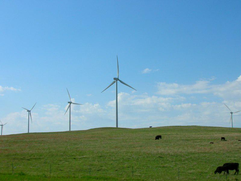 The Wind for Schools Program, supported by the National Renewable Energy Laboratory, aims to help rural school districts install 1.9-kW wind Generators for use in education, and to encourage incorporation of renewable energy education into the K-12 science curriculum. Their goal is to install five turbines per year at rural schools throughout Kansas, and provide assistance to schools in educating their students about renewable energy, especially wind power.